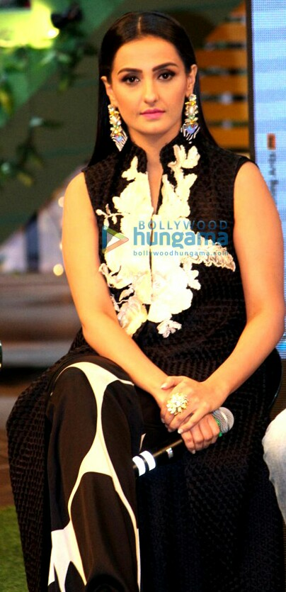 Momal Sheikh at the trailer launch of 'Happy Bhag Jayegi' on The Kapil Sharma Show